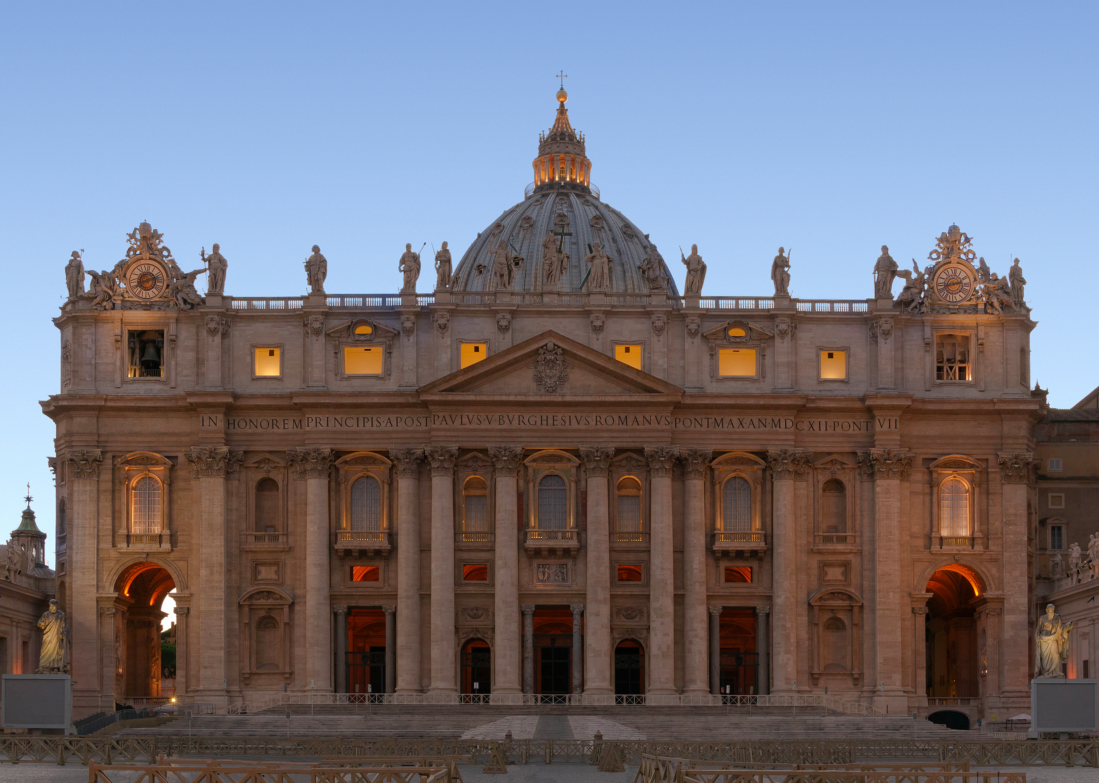 Facade of Saint Peter's Basilica in Rome (Italy), beginning of the evening. Vatican City.